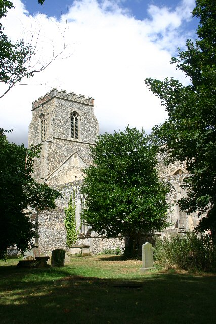 St John's Church, Stanton. At first glance a normal church. But look again; it has no roof. The church was derelicted in the early 1960s, and is now in the hands of the Churches Conservation Trust.